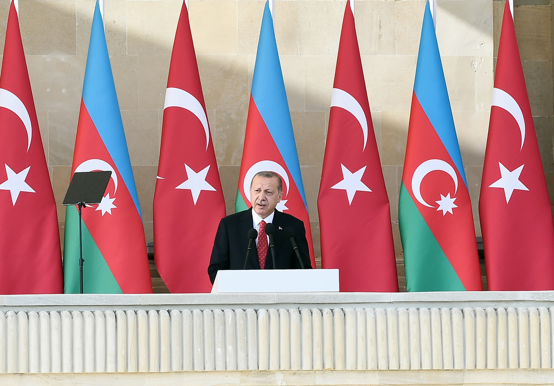 Ilham Aliyev and Recep Tayyip Erdogan attended the parade dedicated to 100th anniversary of liberation of Baku